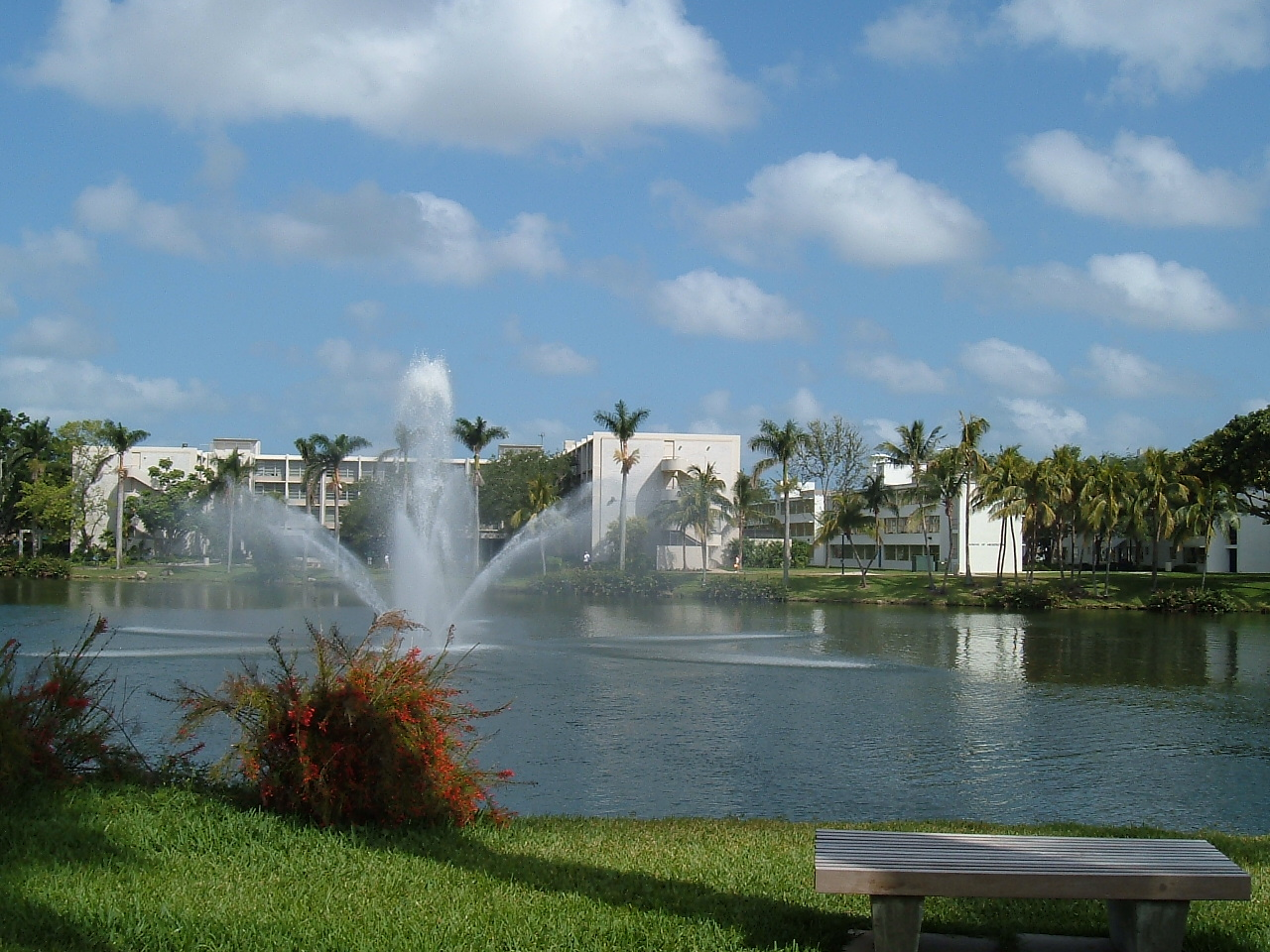 The Coral Gables campus of the University of Miami, view over Lake Osceola. Taken April 2006 by Dr Zak . Dr Zak 13:51, 2 May 2006 (UTC)